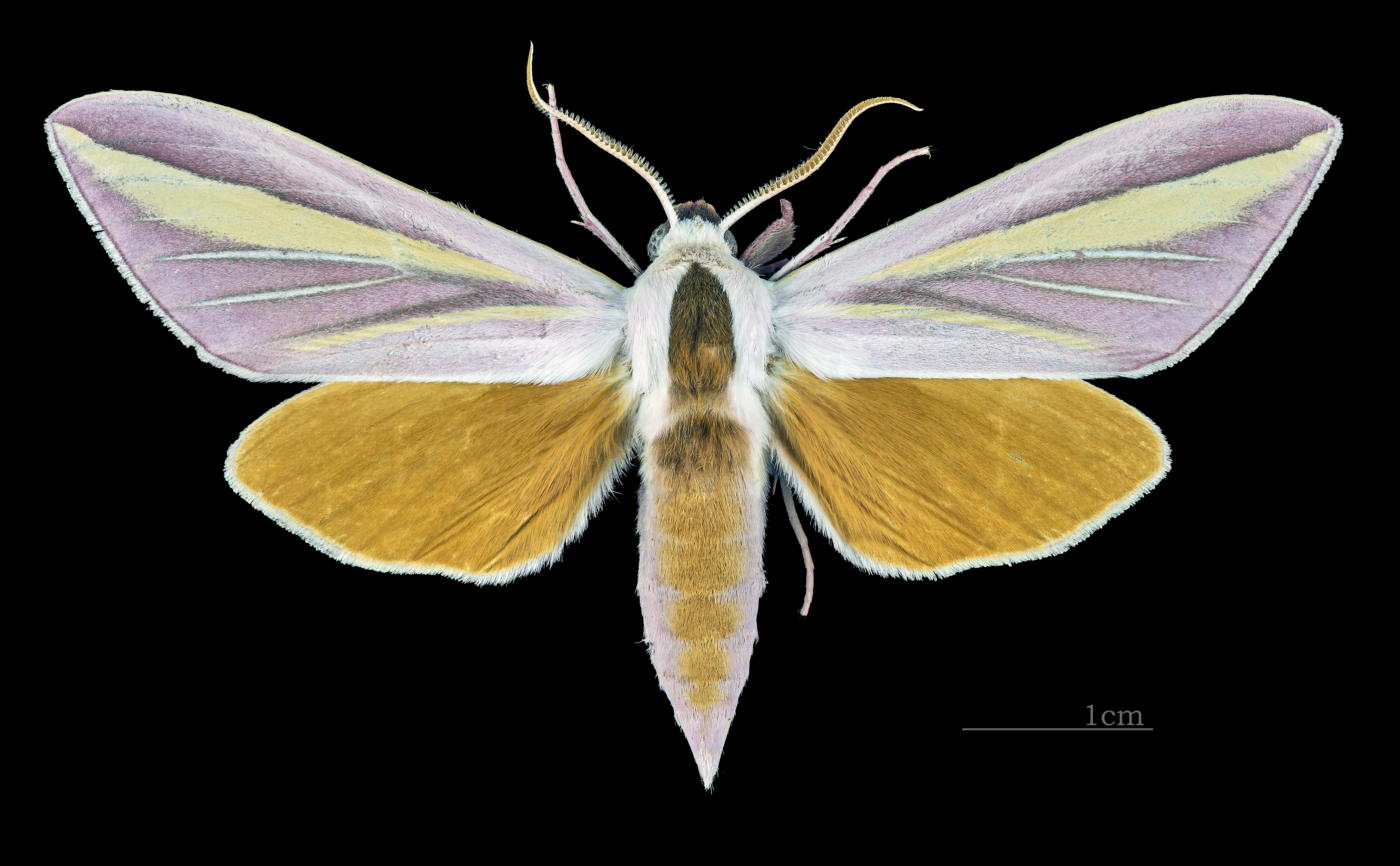 Leucophlebia lineata - Dorsal side Collection of the Mathematician Laurent Schwartz